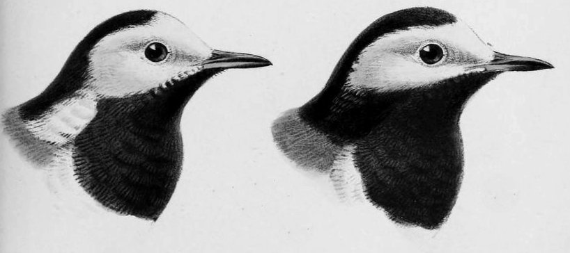 "Persian White Wagtail" = Masked Wagtail × (Indian) White Wagtail